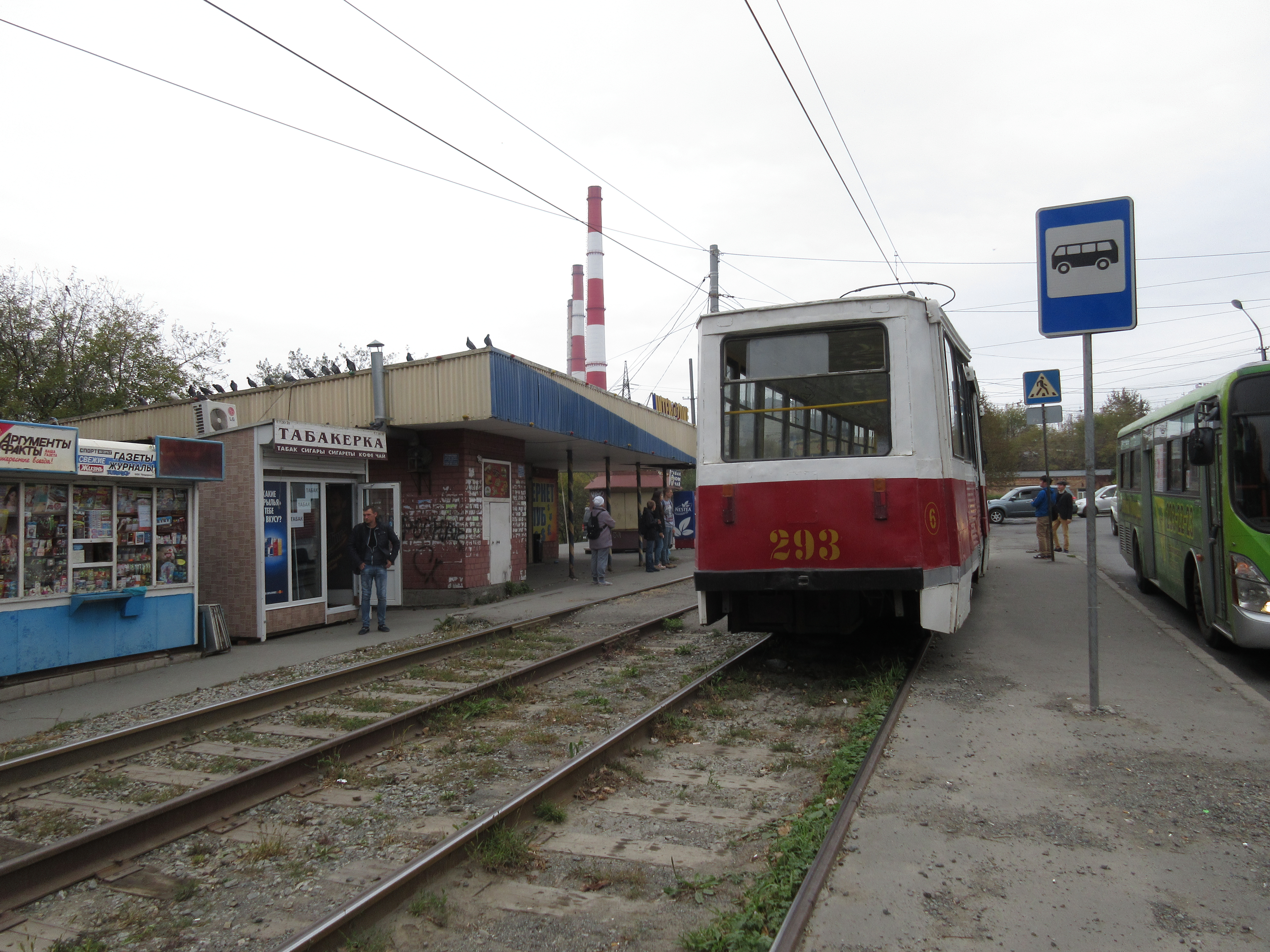 Tram KTM-5 № 293 on Sakhalinskaya stop in Vladivostok. View from back